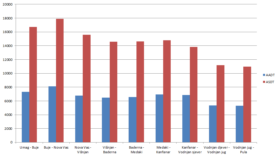 Comparation of AADT and ASDT on the A9 highway (Croatia) in 2015.